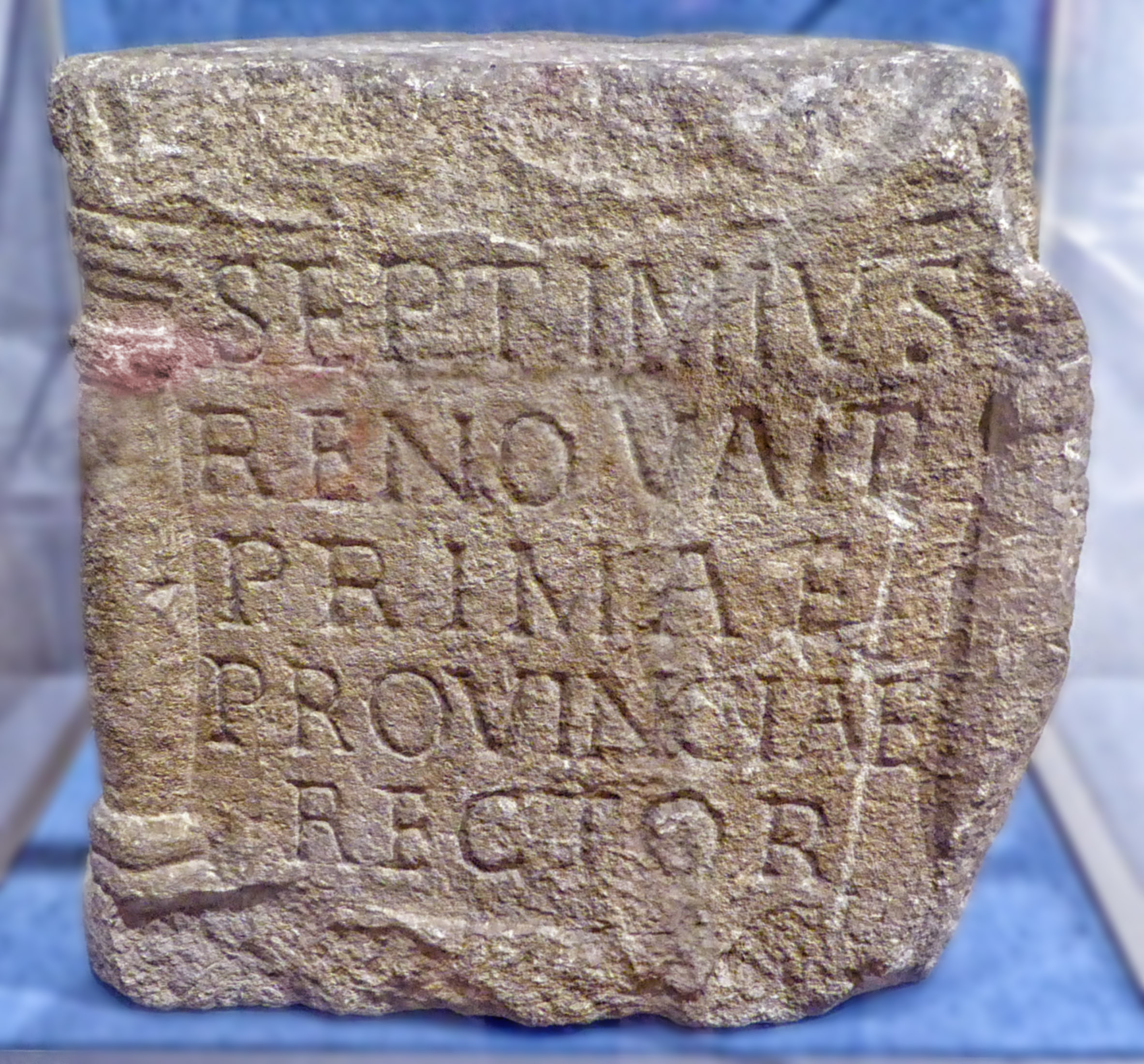 The Septimus stone, Cirencester